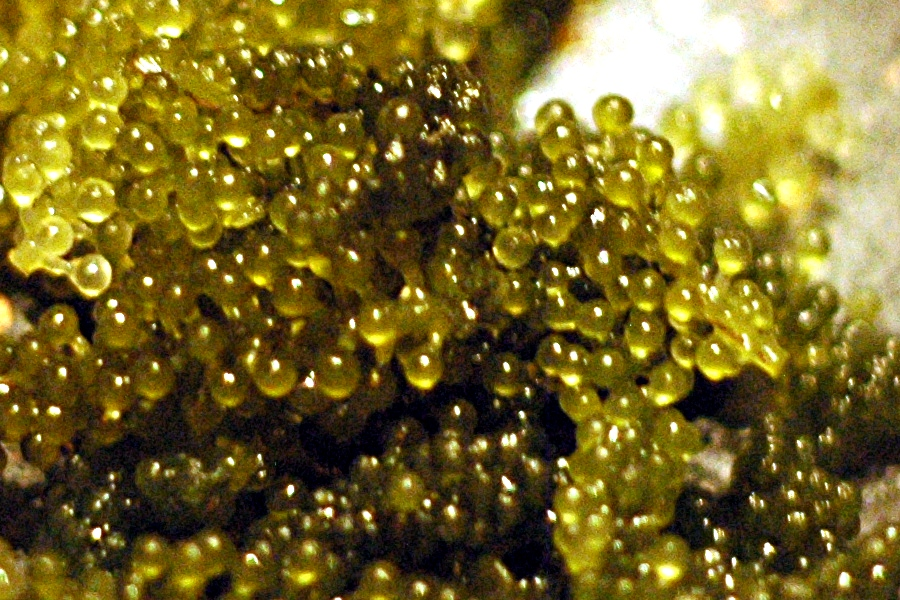 Closeup of sea grapes (Caulerpa lentillifera, 海ぶどう umibudou)